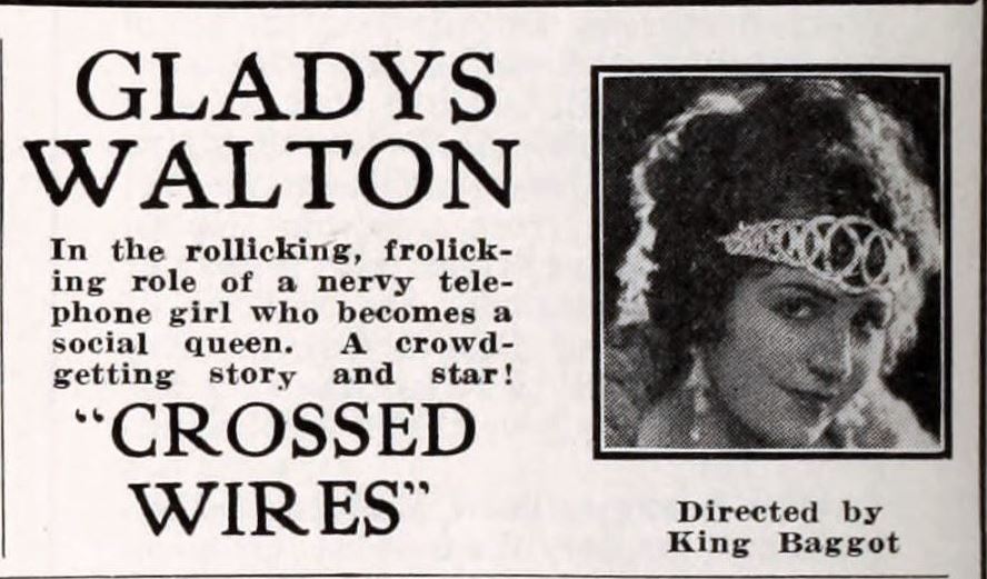 Advertisement for the American comedy film Crossed Wires (1932) with Gladys Walton, on page 32 of the August 4, 1923 Universal Weekly.